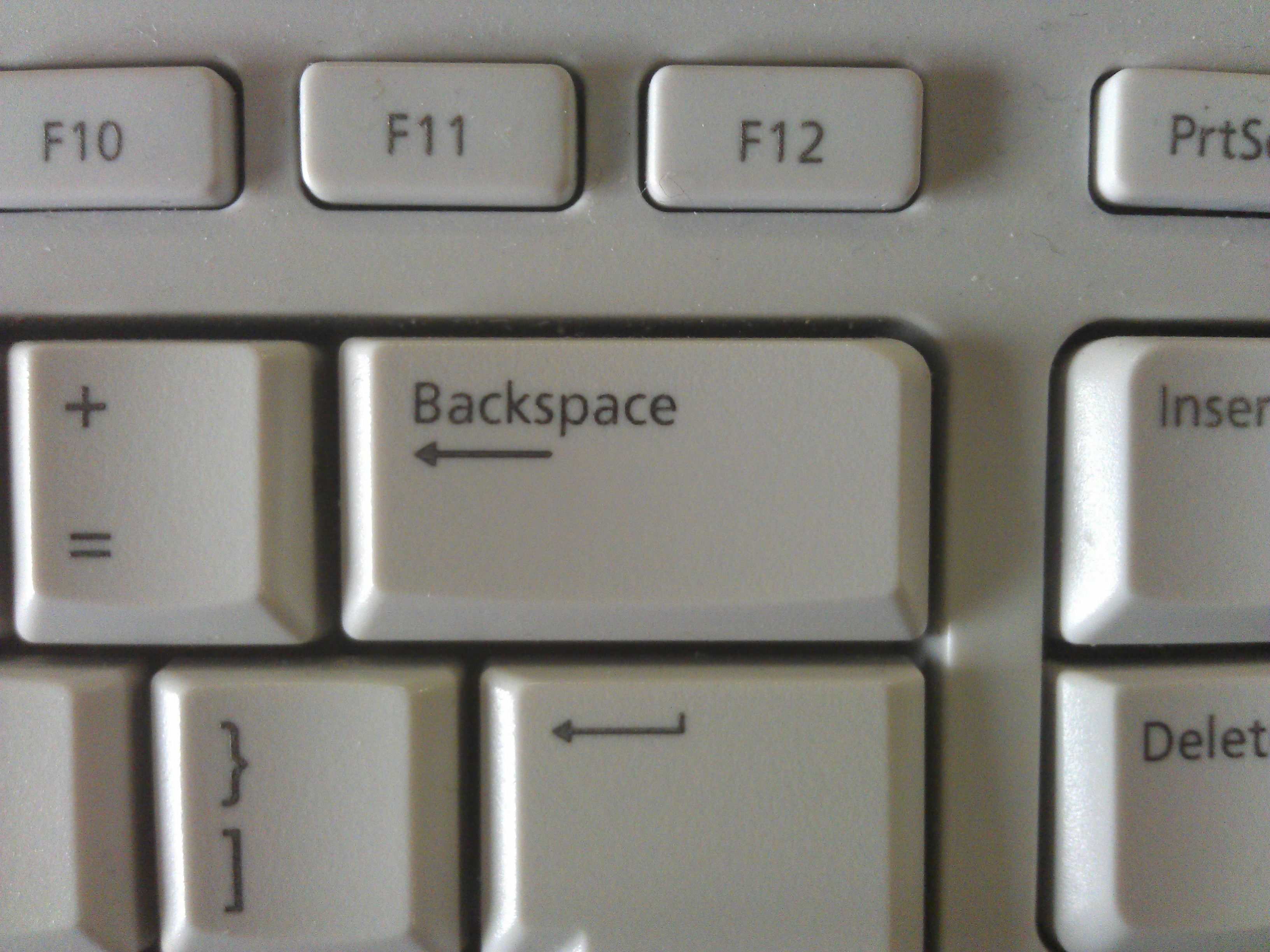 backspace key